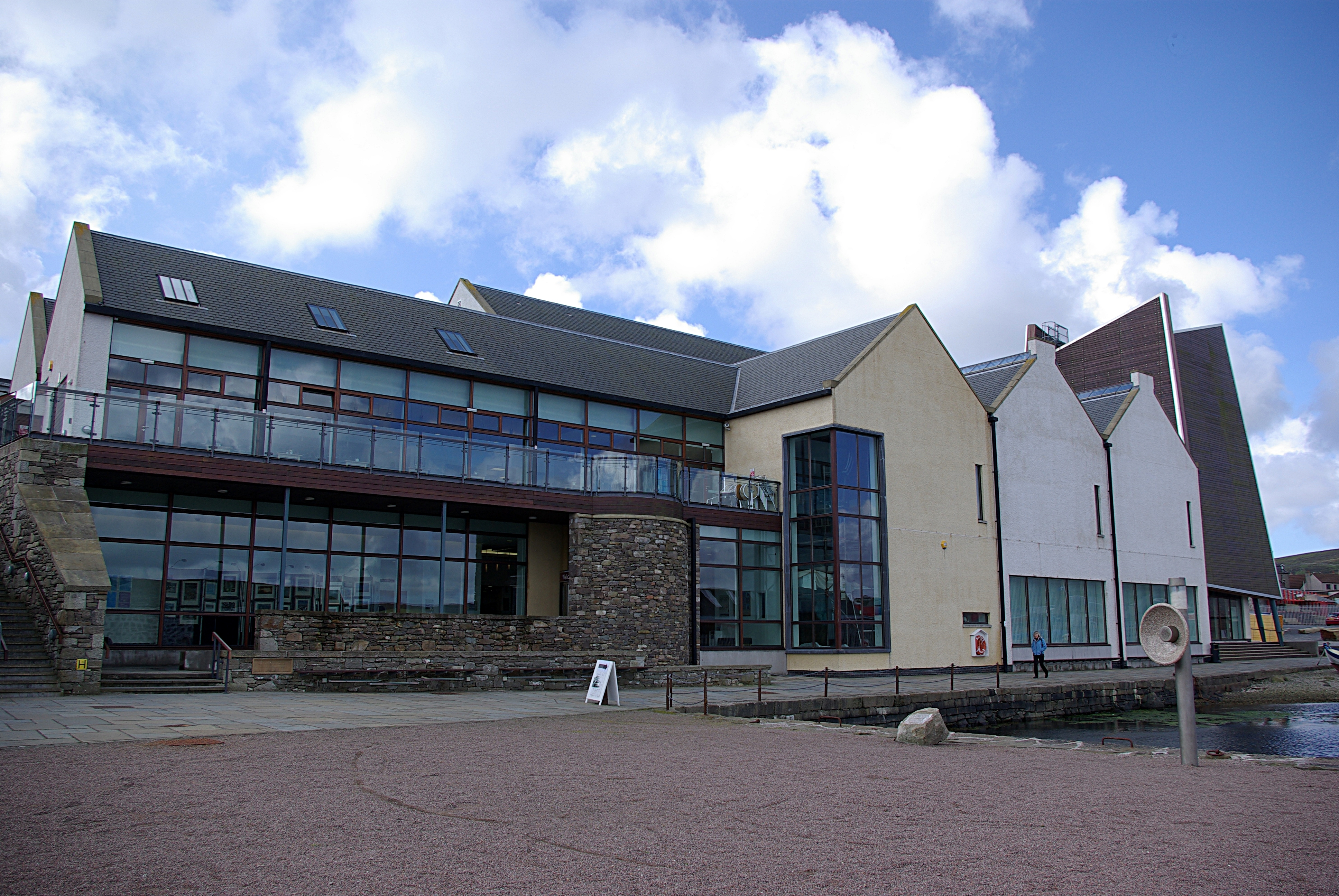 The Shetlandmuseum in Lerwick